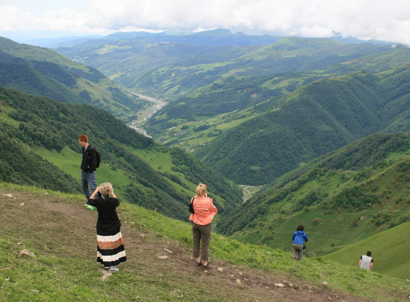 Georgian pilgrims to Lomisi look over the Russian occupied Akhalgori district